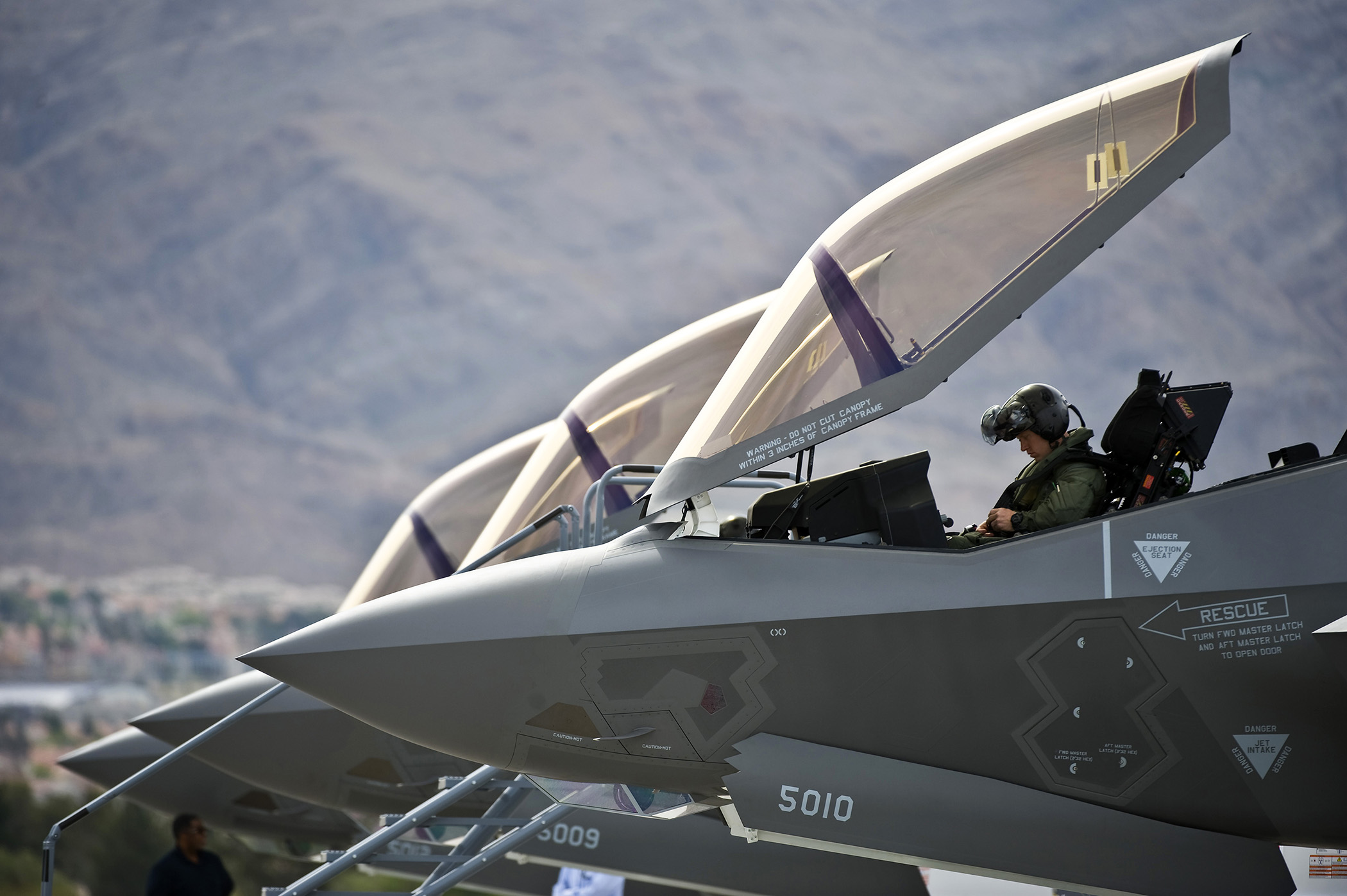 Capt. Brad Matherne conducts preflight checks inside an F-35A Lightning II before a training mission April 4 at Nellis Air Force Base, Nev. The F-35A will be integrated into advanced training programs such as the U.S. Air Force Weapons School and Red and Green Flag exercises. Matherne is a pilot assigned to the 422nd Test and Evaluation Squadron.